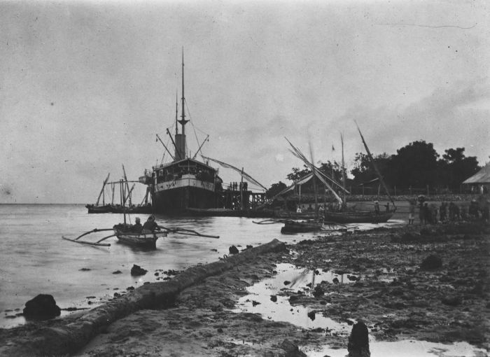 KPM steamer 'Both' moored to the pier